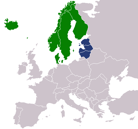 The location of the Nordic countries and the Baltic states. The purpose to upload such image is a need of a map, showing both of the previously mentioned regions and eliminating the need to add two separate maps on a single article (e.g. Northern Europe).